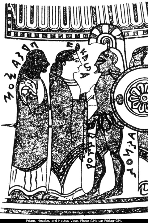 Priam, Hecabe and Hector, Vaso.